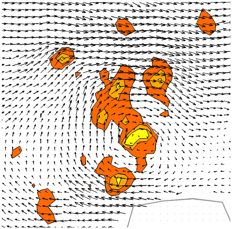 Picture of the relative velocity in a vortex in turbulent flow near a stone, original picture from Hofland (2005) Rock & Roll; Turbulence-induced damage to granular bed protections; PhD thesis TU Delft, p119 (measured data)